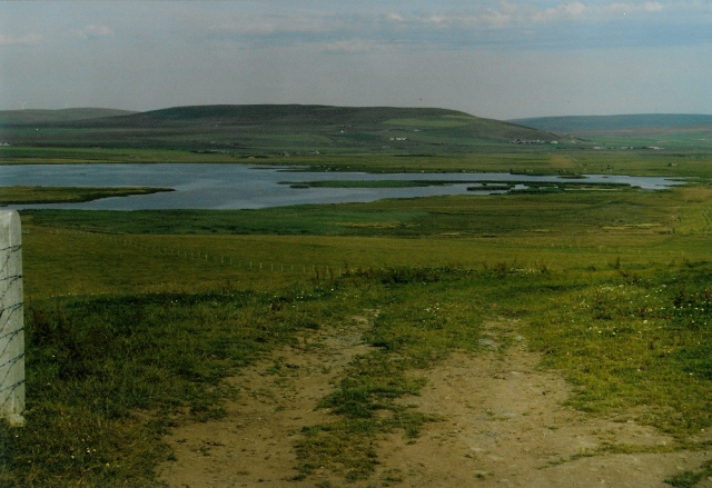 Loch of Isbister, from the west Seen from the farm beside Knowe of Holland, the Loch below is next to the nature reserve 'The Loons' (off to the left). In the distance is Greeny Hill.